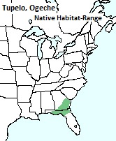 The native habitat and range of the Tupelo, ogeche tree.